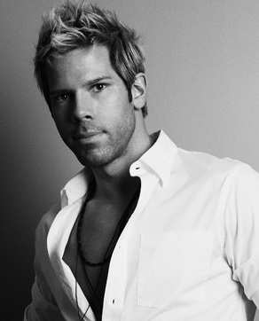 Photo of MrYoga Brand Founder Daniel Lacerda.jpg Currently looking on providing proper documentation PersonZ777 (talk) 19:21, 26 March 2013 (UTC)